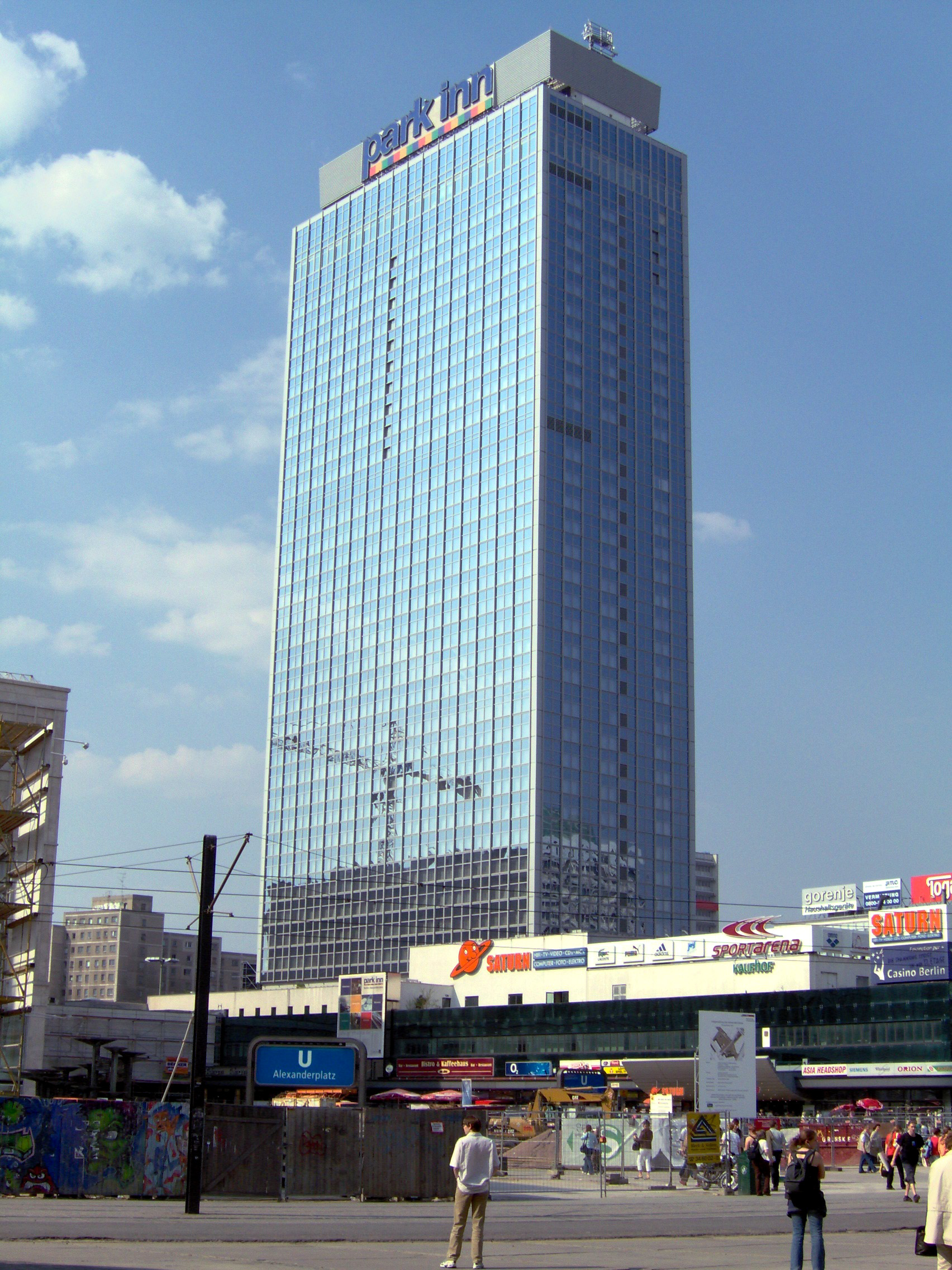 The Park Inn Berlin, showing the new facade